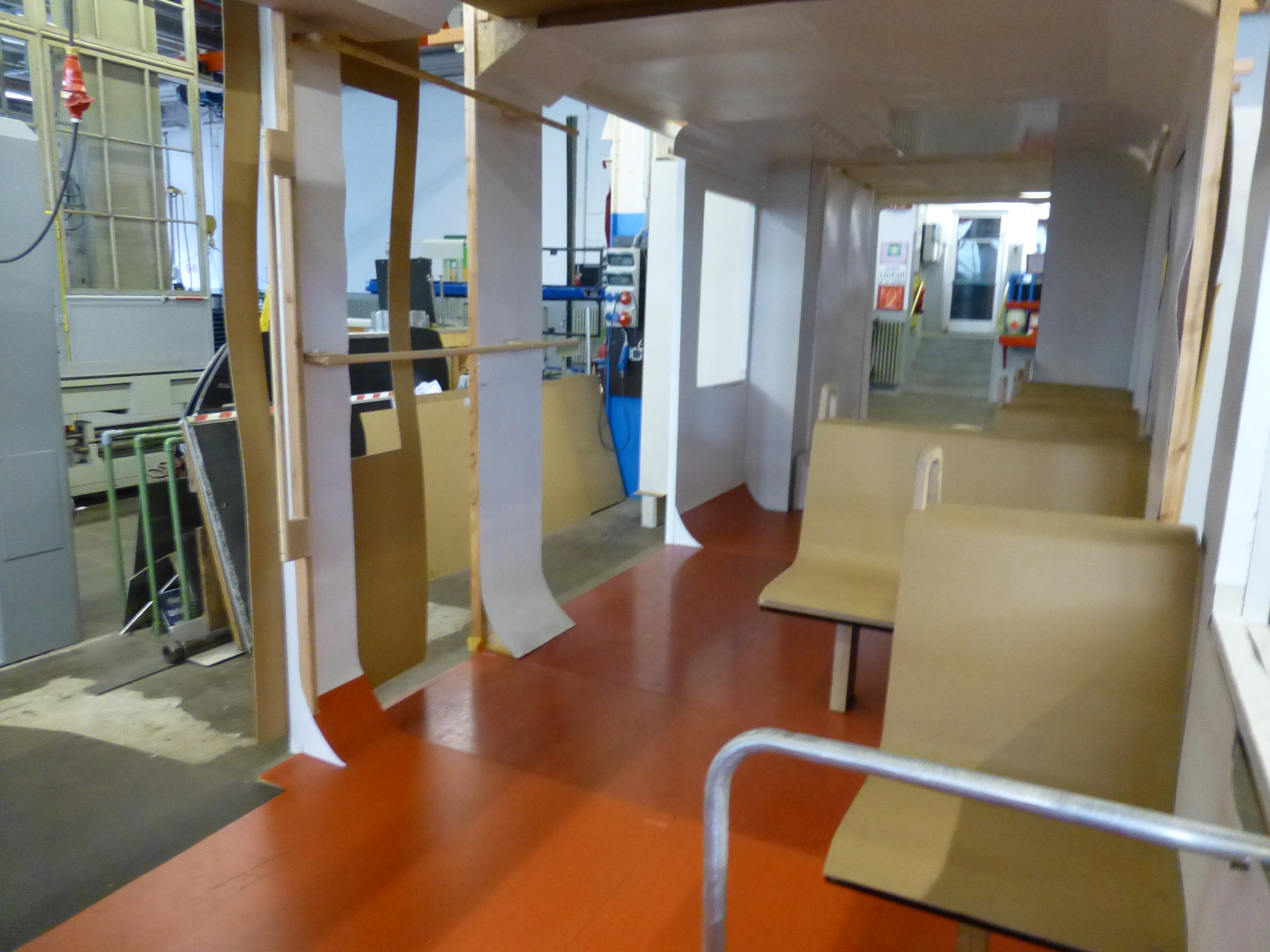 The action "We invite Samuel to Wuppertal".